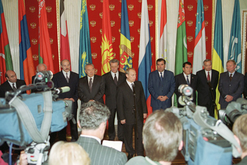 THE KREMLIN, MOSCOW. A joint news conference of CIS heads of state following the summit.